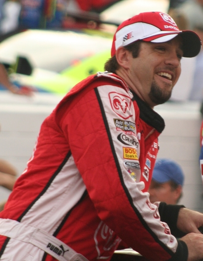 NASCAR driver Elliott Sadler in August 2007 at Bristol Motor Speedway. Cropped from original.